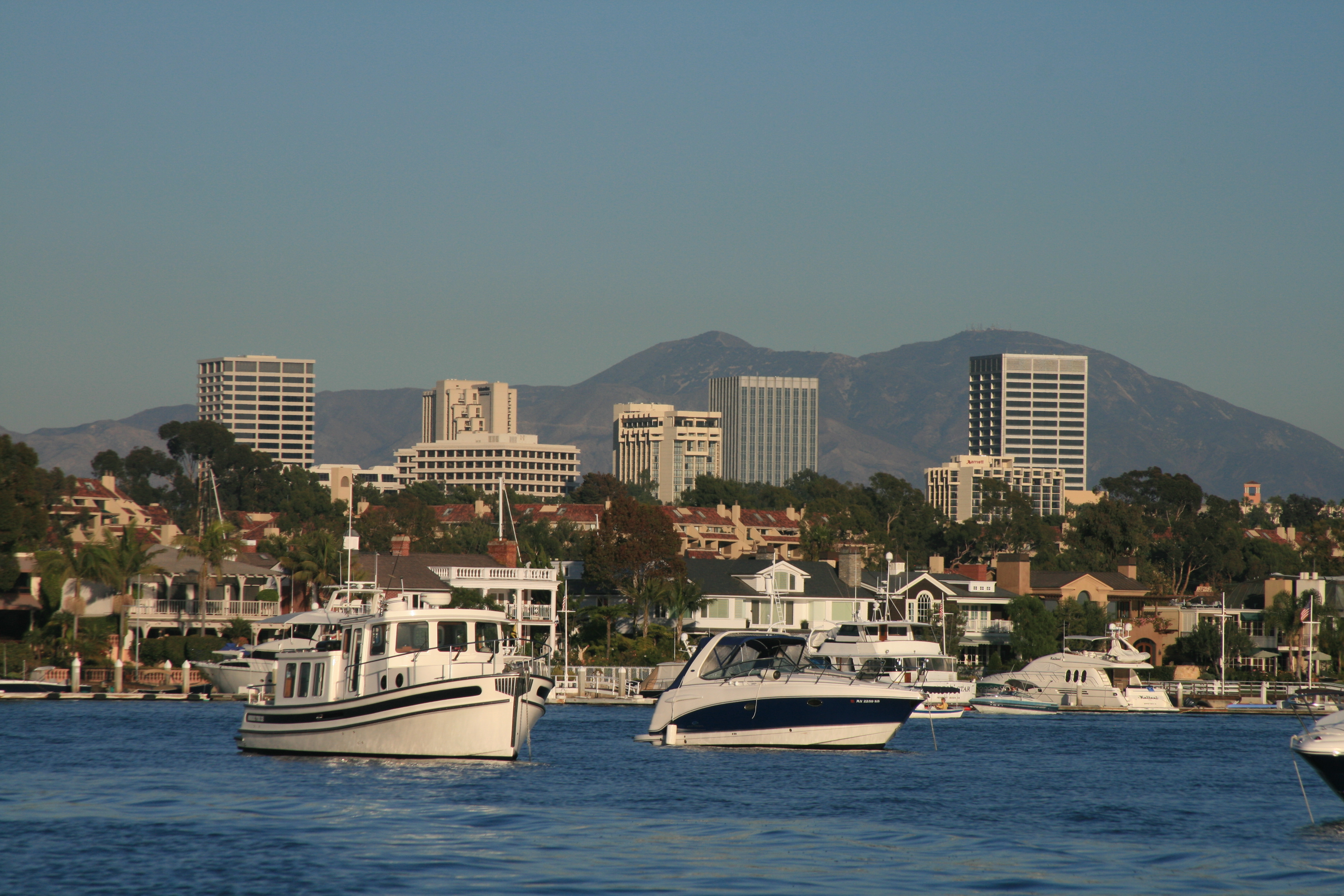 The Newport Center Skyline in Newport Beach, CA with the Santa Ana Mountains in the background, as seen from on the water in Newport Harbor.